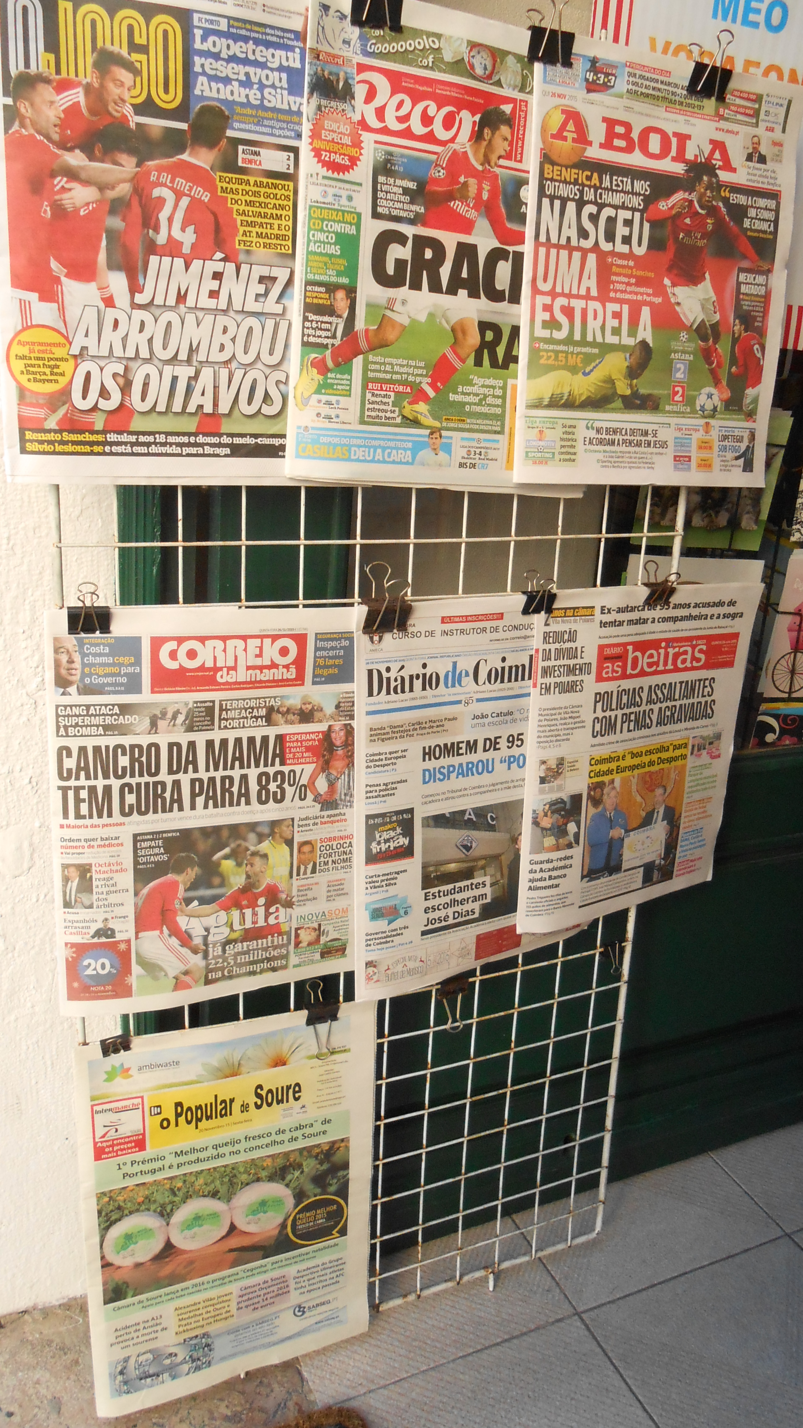 Newspapers stand in the portuguese town of Soure, seen in november of 2015.